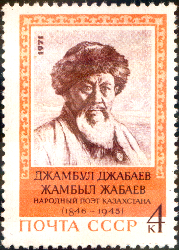 USSR stamps: Jambyl Jabayev (after Anatoly Yar-Kravchenko). Seriesː 125th Anniversary of Jambyl Jabayev (1846-1845), Kazakh Poet-aqyn